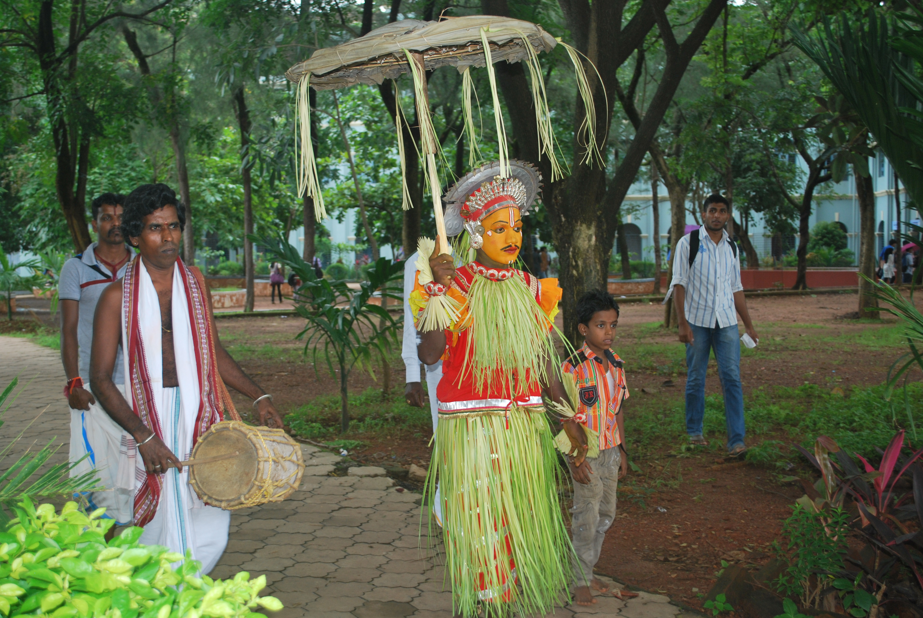 Aati Kalenja, a folk performance from coastal Karnataka